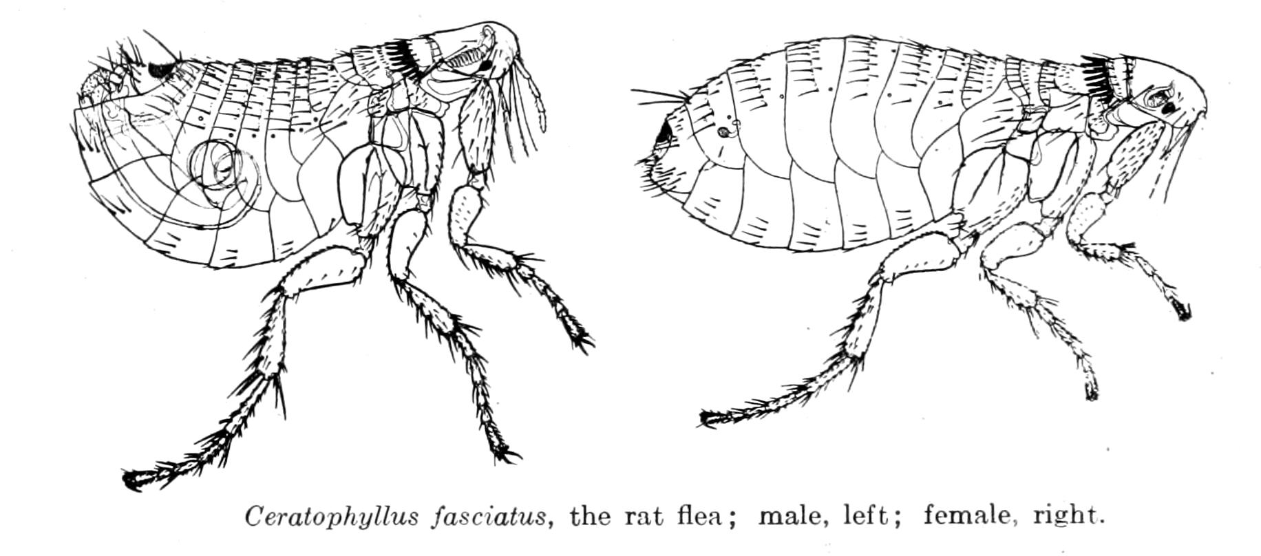 Ceratophyllus fasciatus The Internet Archive notes it as out of copyright